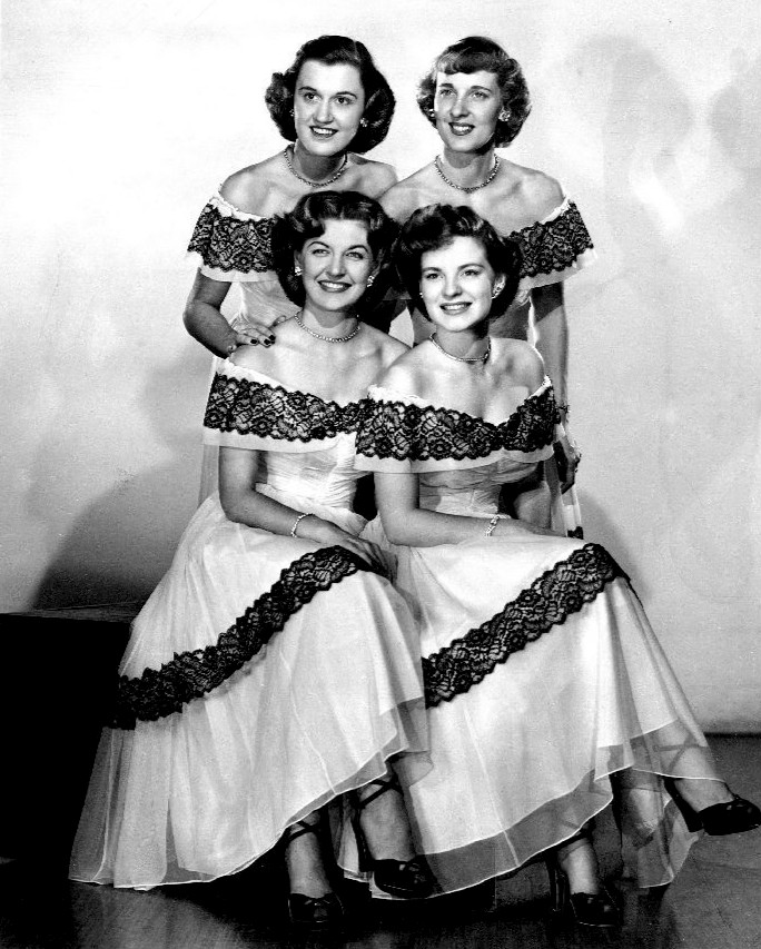 Photo of the vocal group The Chordettes.Clockwise from top: Carol Buschmann, Dorothy "Dottie" Schwartz, Jinny Osborn, and Janet Ertel.